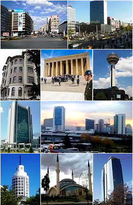 Images of Ankara Metropolitan Municipality